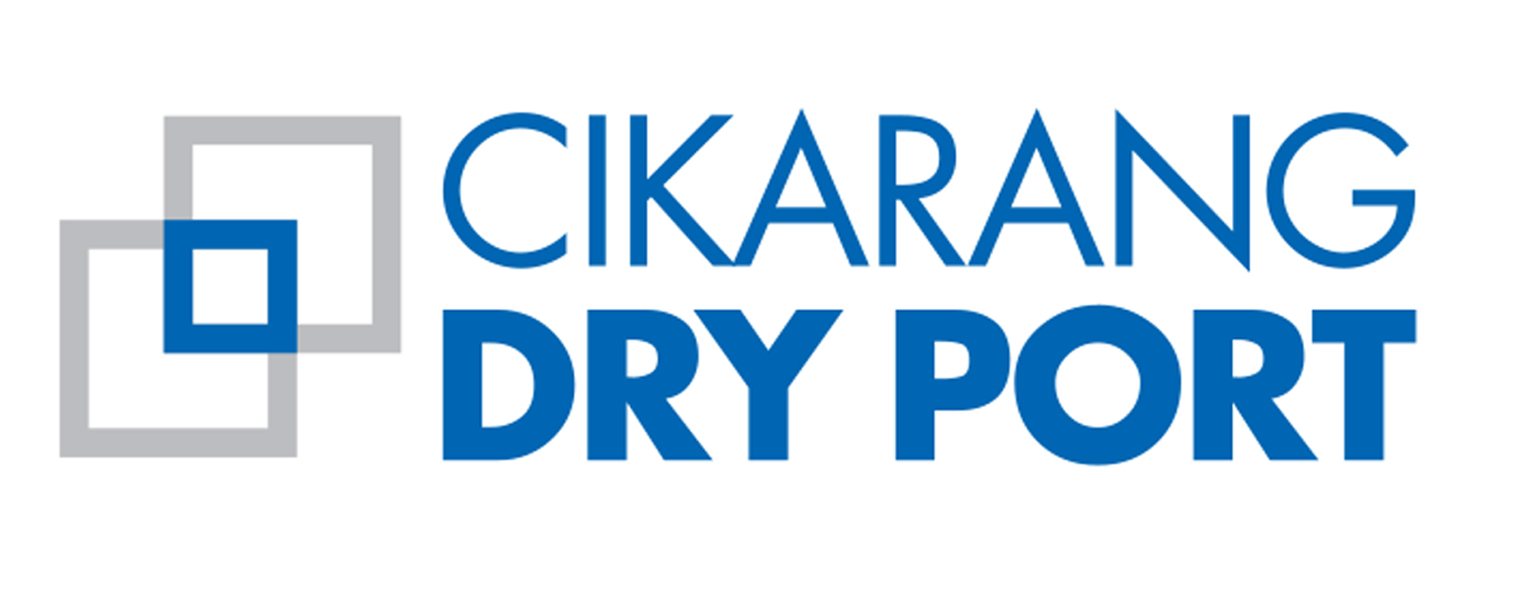 Logo of CDP